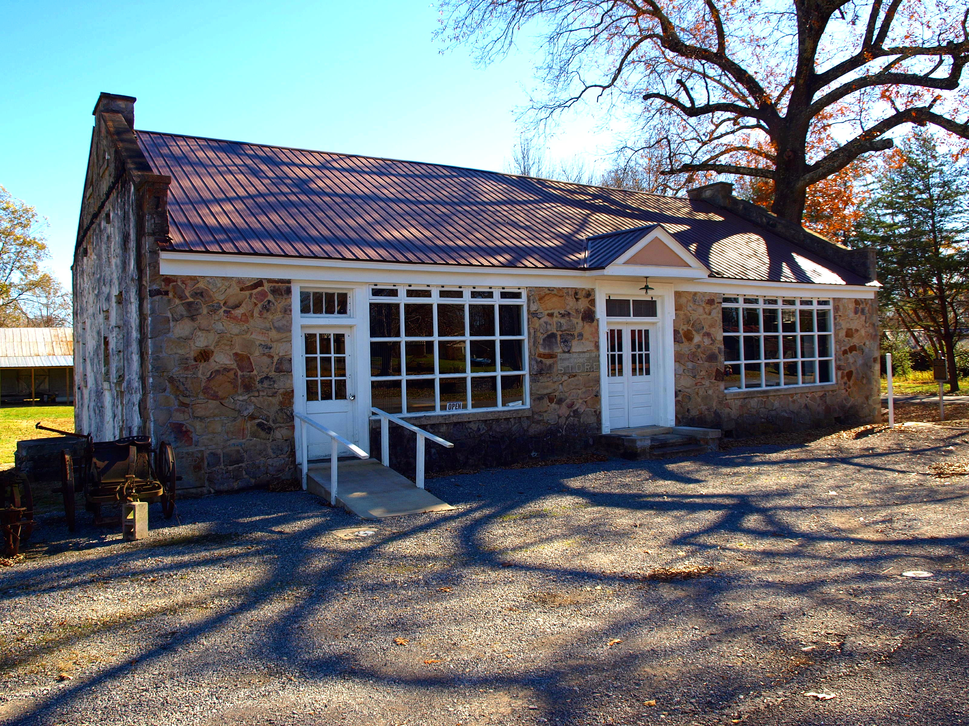 The Skyline Commissary in Skyline, Alabama, listed on the National Register of Historic Places